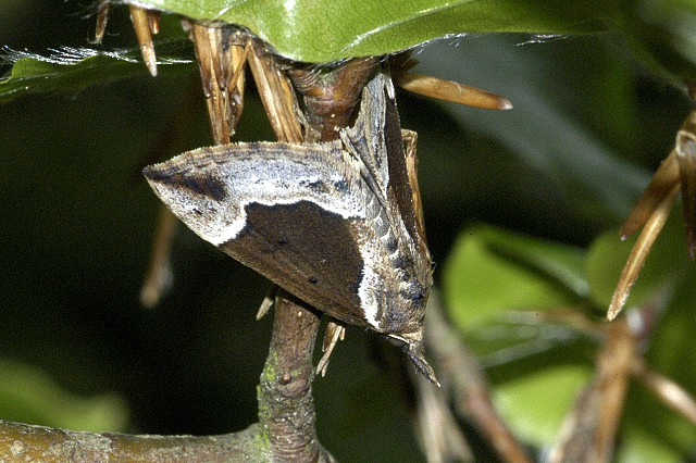 Picture taken in Commanster, Belgian High Ardennes . Species: Hypena crassalis